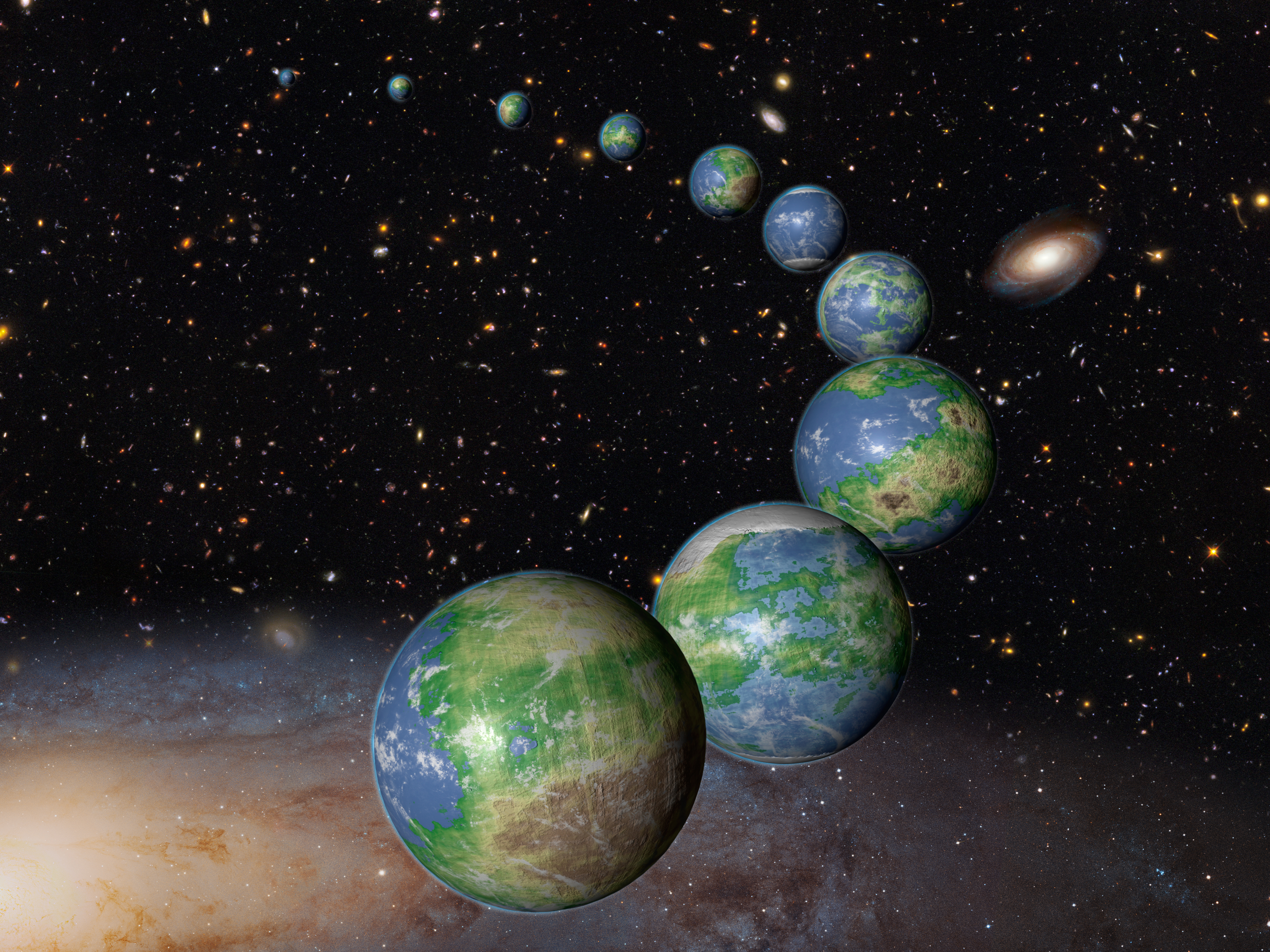 This is an artist's impression of innumerable Earth-like planets that have yet to be born over the next trillion years in the evolving universe. Link: NASA Press release